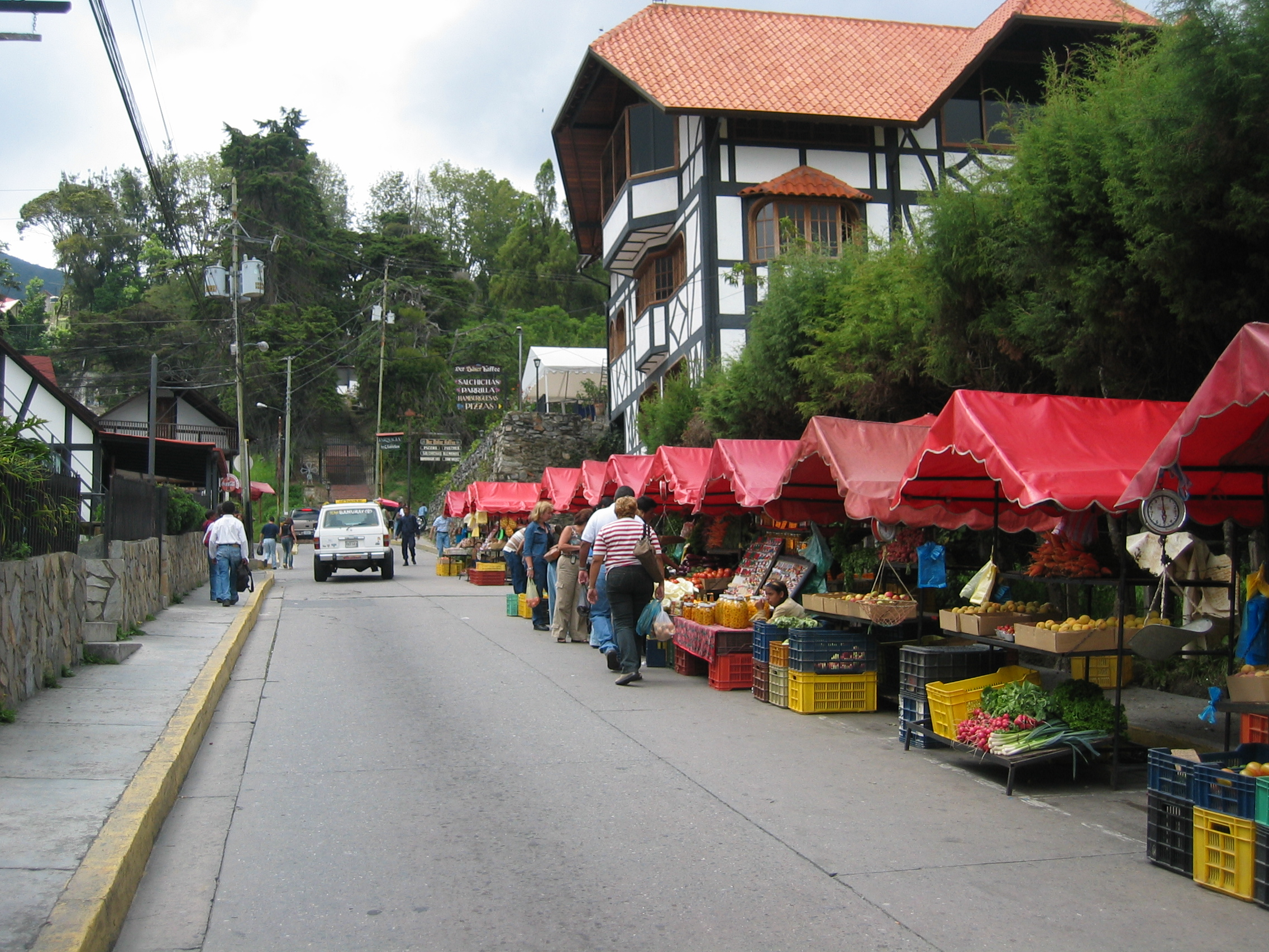 Street vendors, Colonia Tovar, Venezuela.